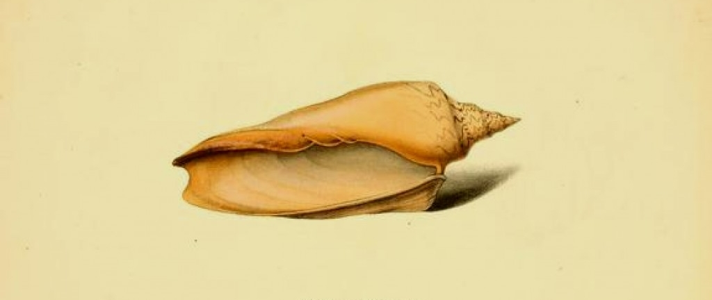 Illustration of the south Atlantic seashell Zidona dufresnei (Donovan, 1823)[1].